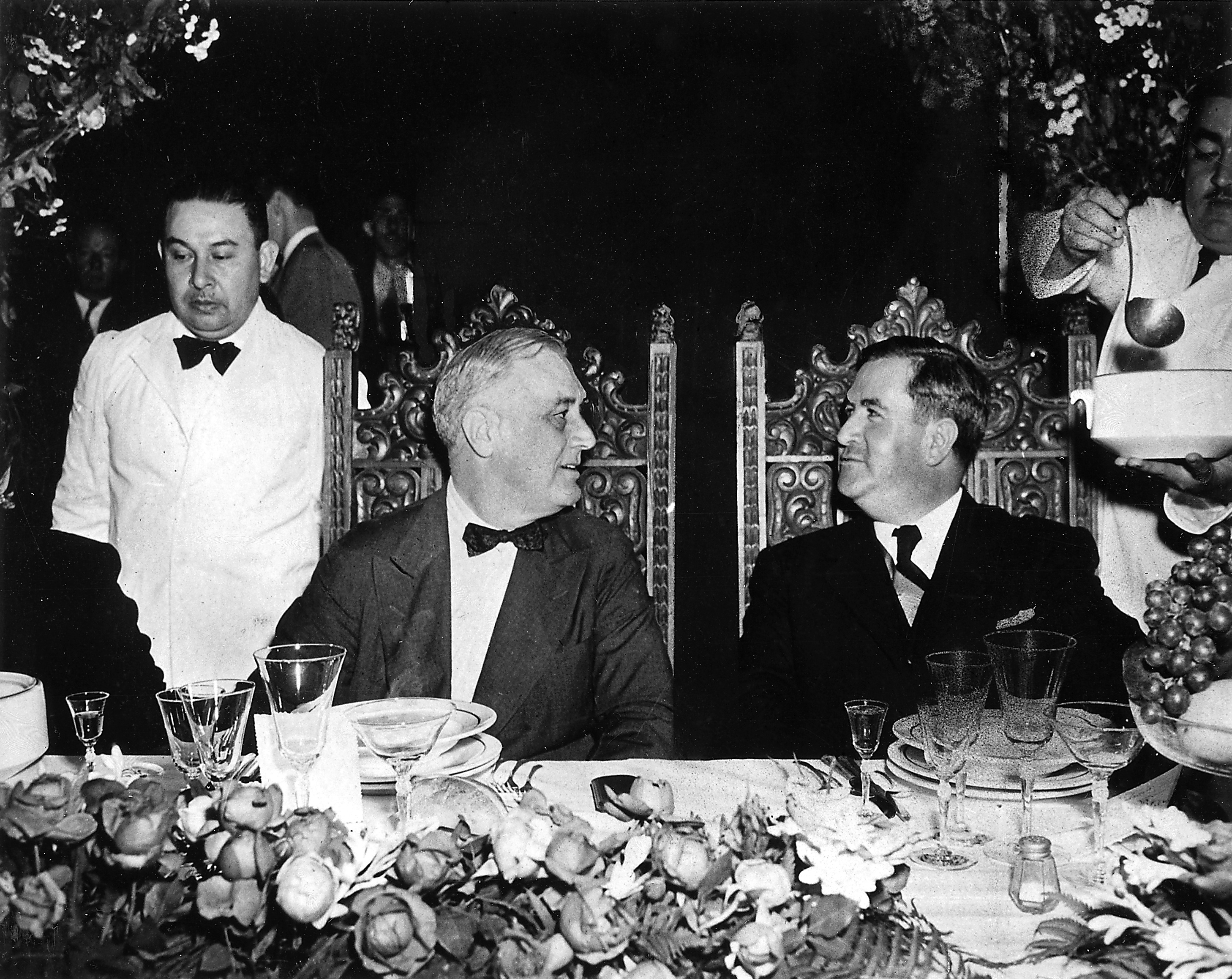 U.S. President Franklin D. Roosevelt (left) and Mexican President Manuel Ávila Camacho (right) during a state visit to Monterrey, Mexico.